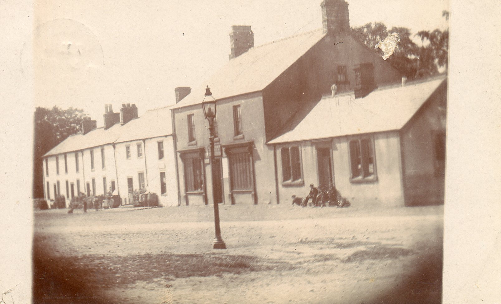 Cooperative Store at Blennerhasset, Cumbria, Englan